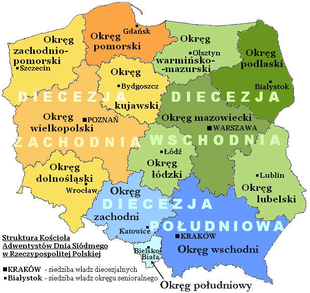 Conferences and districts of the Polish Union Conference of Seventh-day Adventists